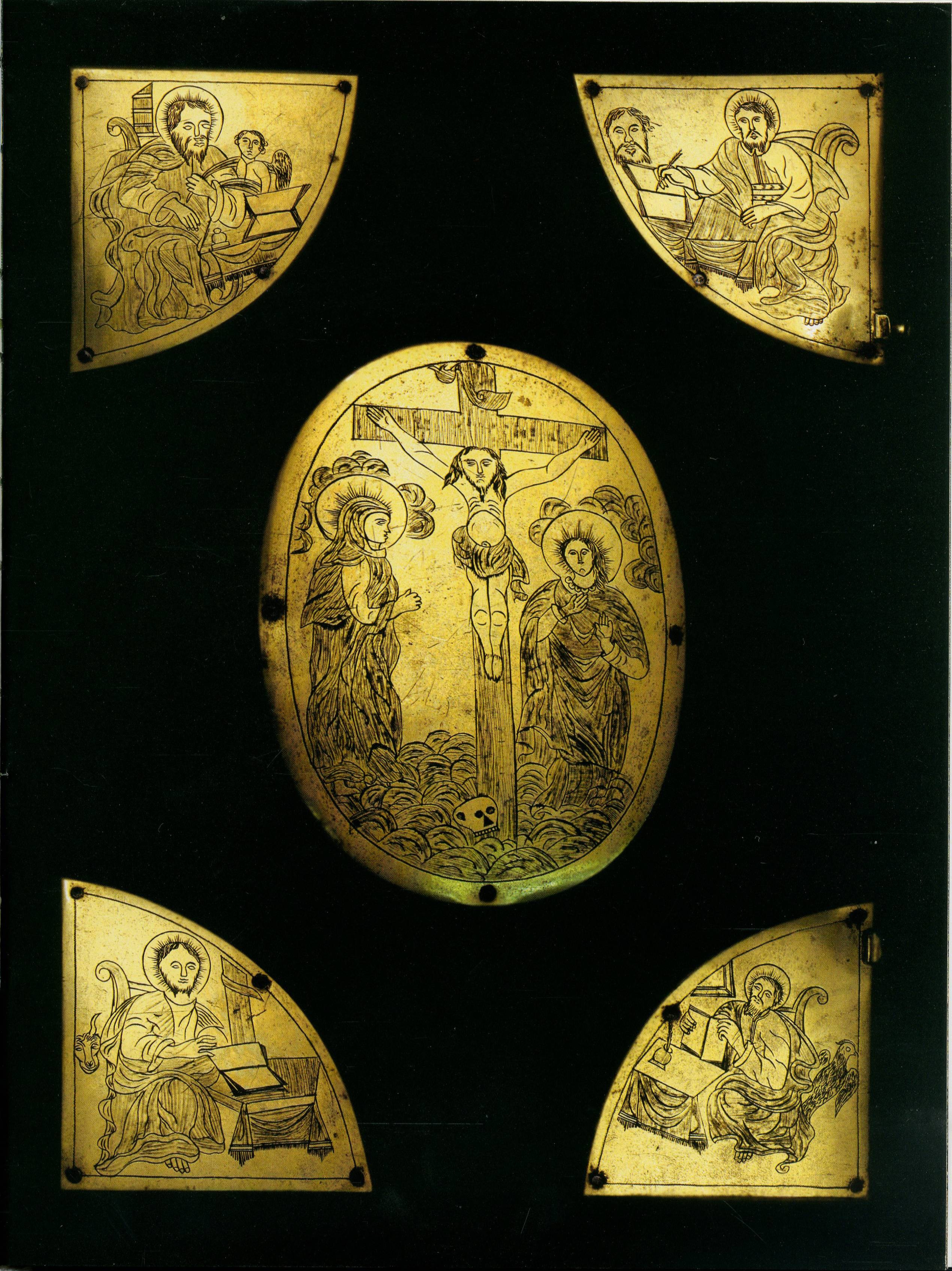 THE GOSPEL. Vilnia. 1600-1644. Cover 1838. Velvet, metal, engraving. The Intercession Church, Zhabinka, Brest region.